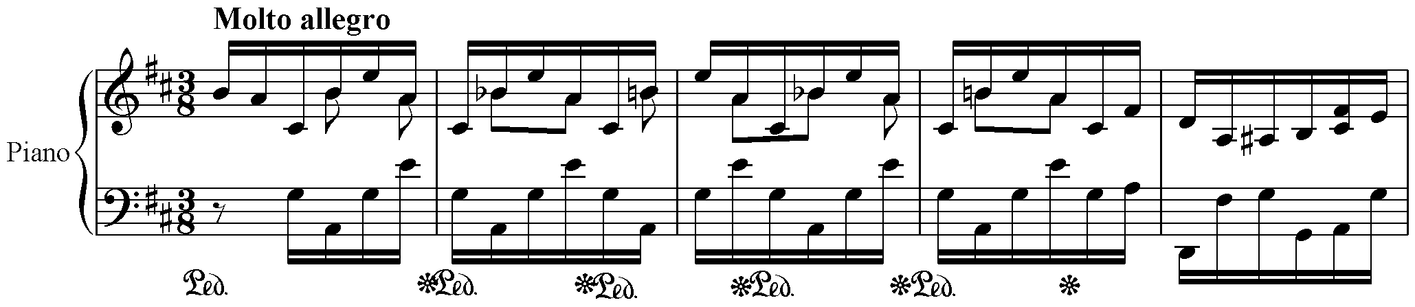 5 first bars of Chopins prelude 5 op. 28